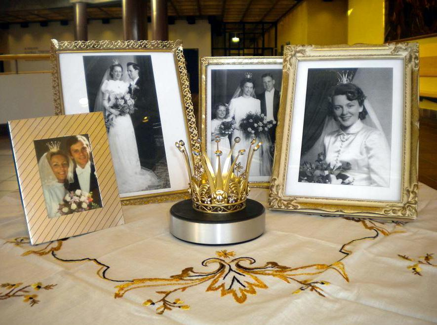 Gilded silver bridal crown by Swedish master goldsmith Bo Stefan with photos of 4 brides who wore it (1938-1978): Eva Sterner (Mrs. C. J. Stefan Ridderstedt), Birgit Anderson (Mrs. C. Erik Ridderstedt), Märta Enbäck (Mrs. R. Stig Stefanson) & Ingegärd Stefanson (Mrs. Arne Klum)Place: Church of Sweden, Täby, Sweden